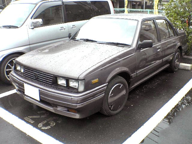 series JJ120 Isuzu Aska with Irmsher package